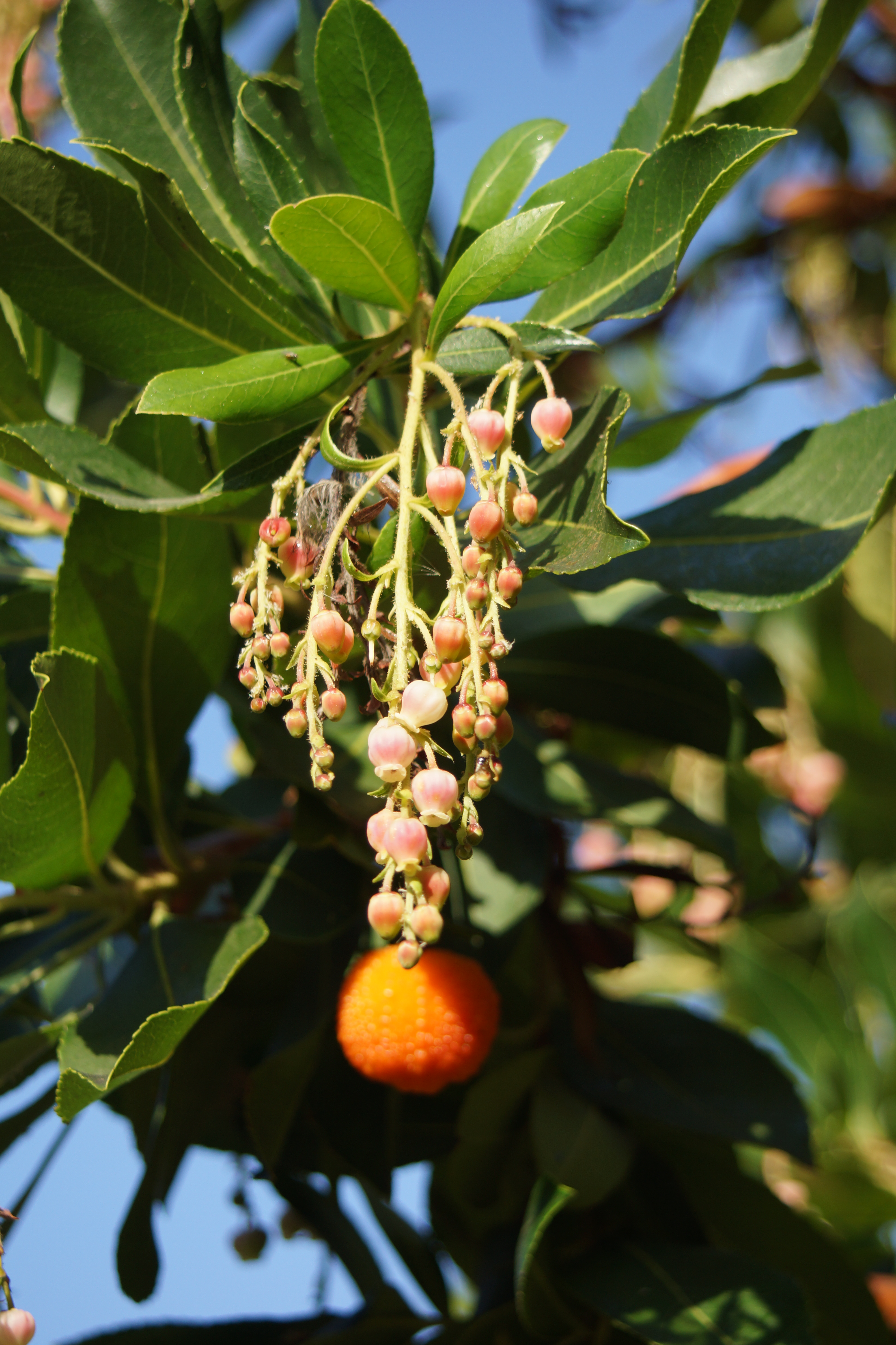 2013, Strawberry Tree, Arbutus unedo